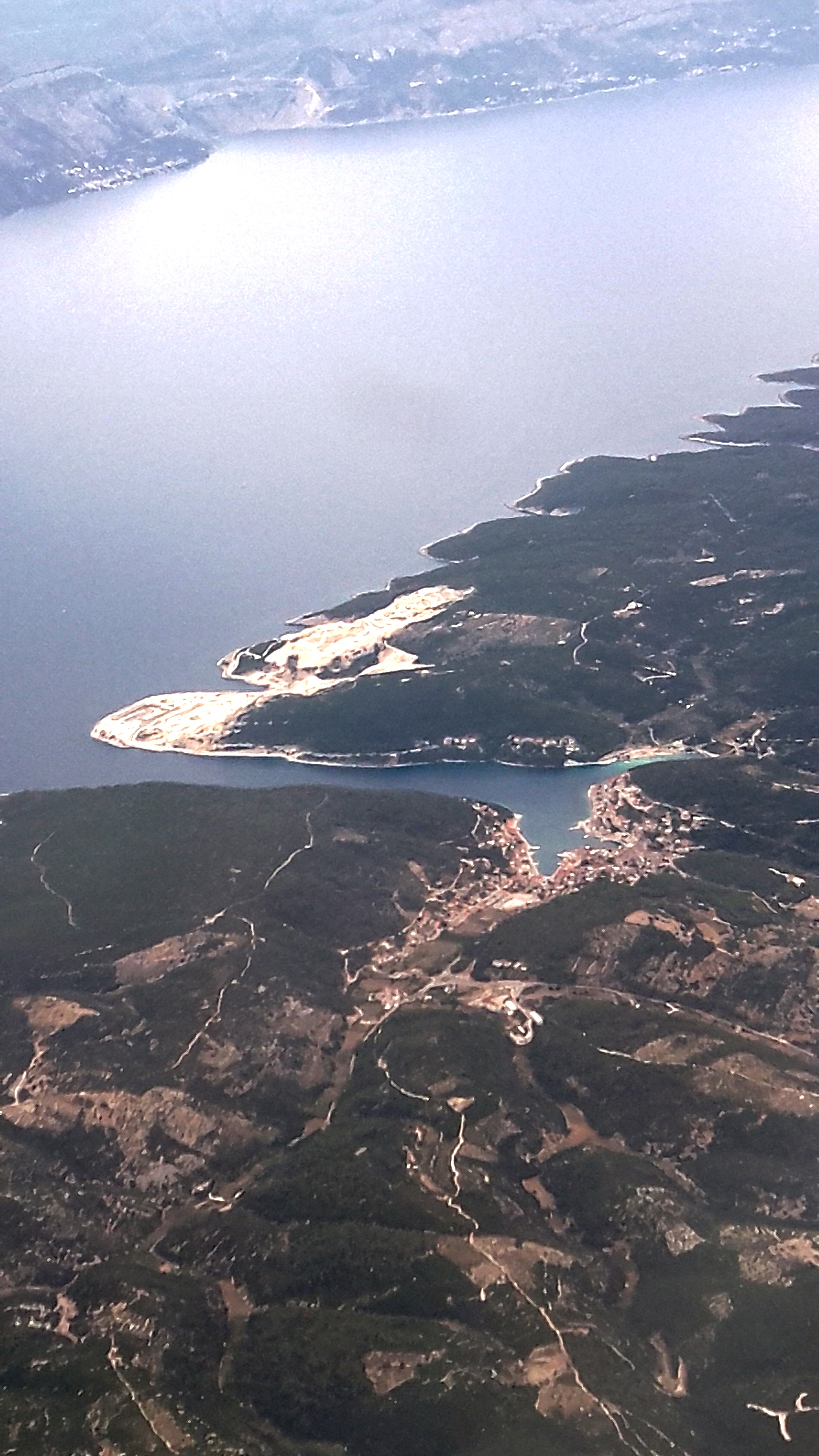 Aerial view of Pučišća, island of Brač, Croatia, from the south west